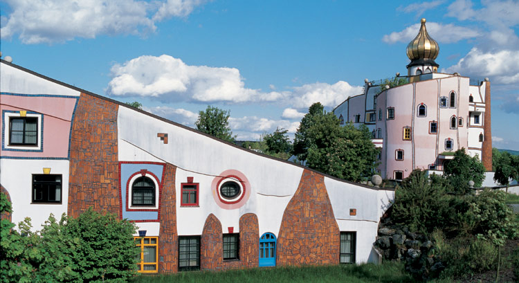 Stammhaus at Rogner Bad Blumau